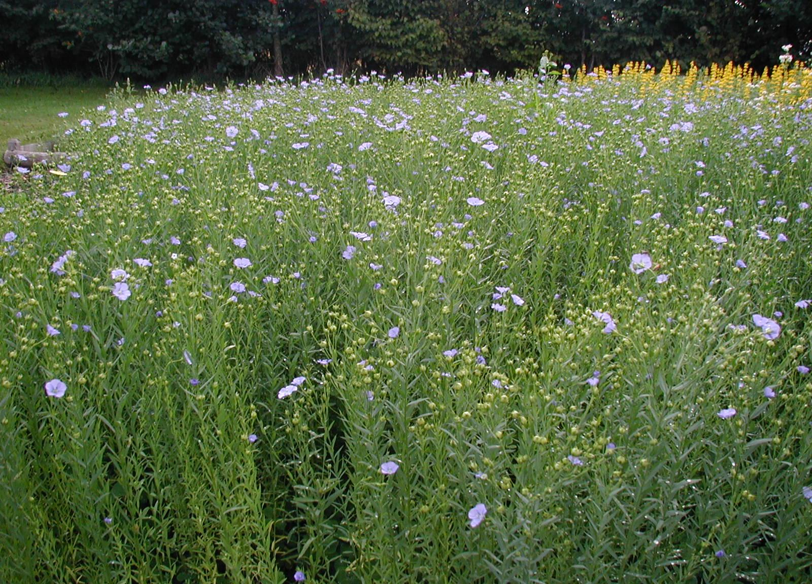 Linum usitatissimum: Flax used as a ground cover.